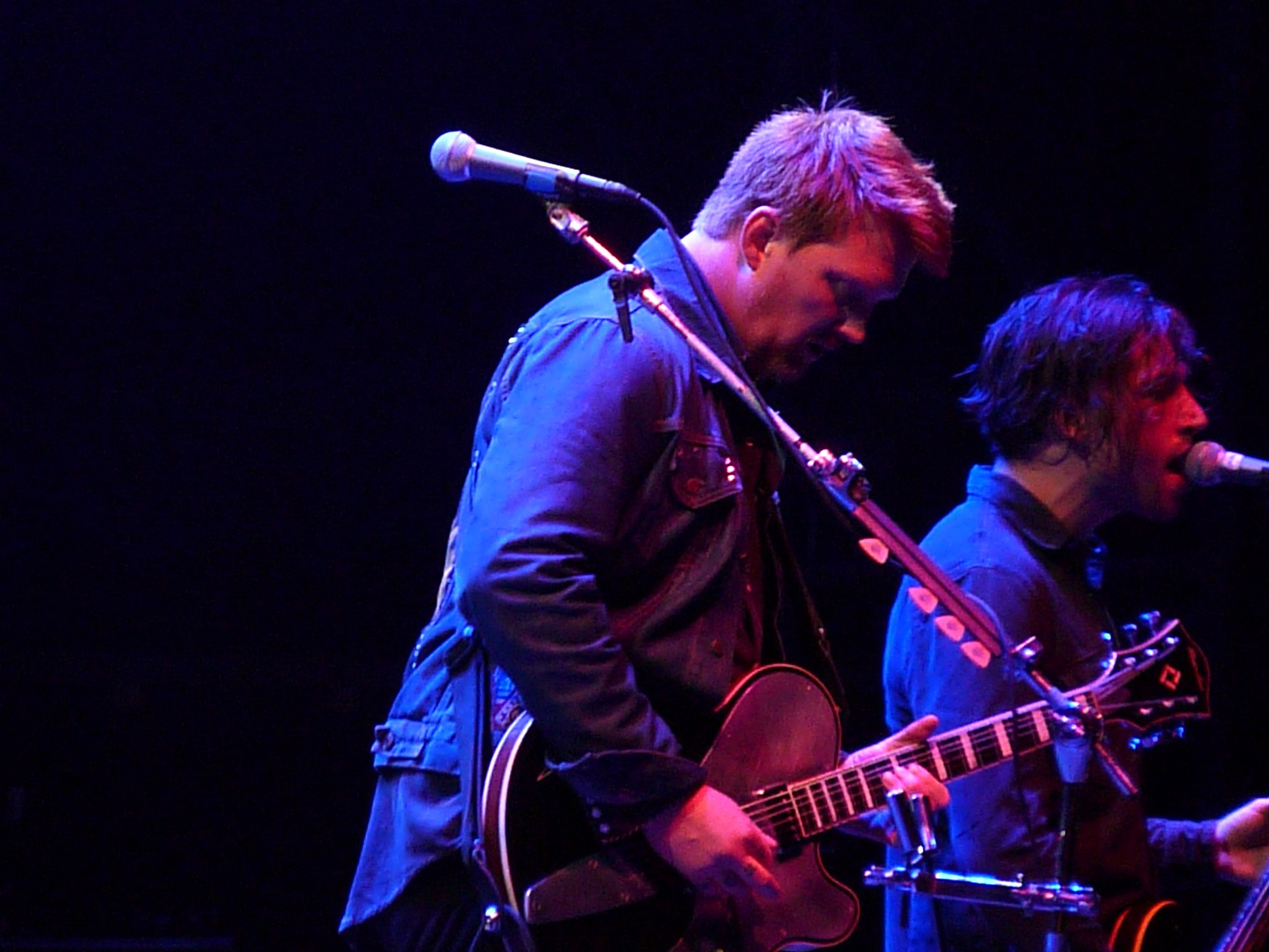 Template:Queens of the Stone Age Emiliàn e rumagnòl: I Queens of the Stone Age tòlt śò durànt al Fèstival Rock 'd Azkena dal 2011